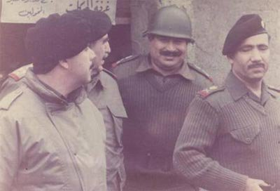 Adnan Khairallah, Abdel Jabbar Khalil Shanshal, Sultan Hashim Ahmad al-Tai, Maher Abd al-Rashid (Left to right) during the Iran-Iraq War.